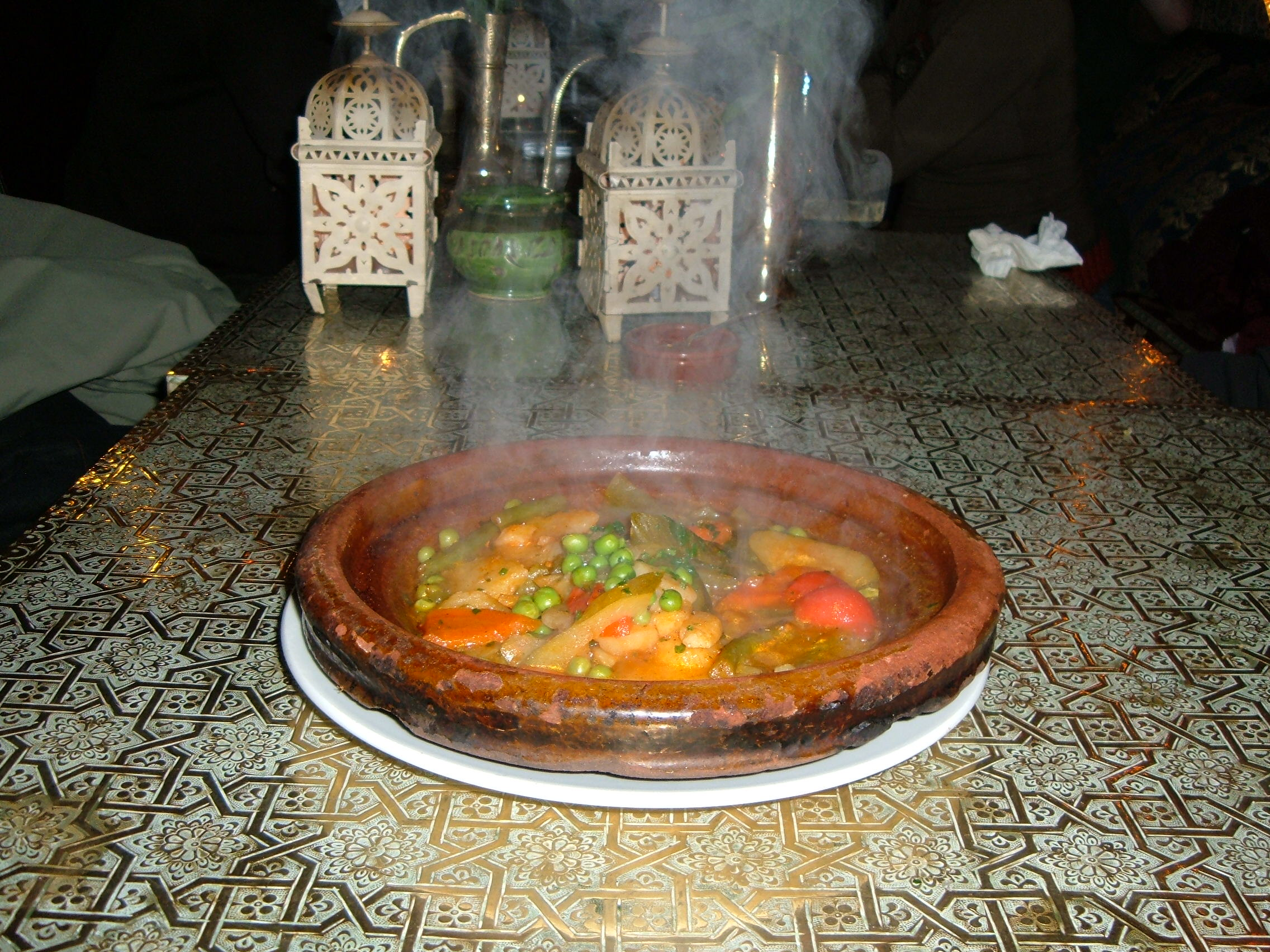 Vegetable Tajine